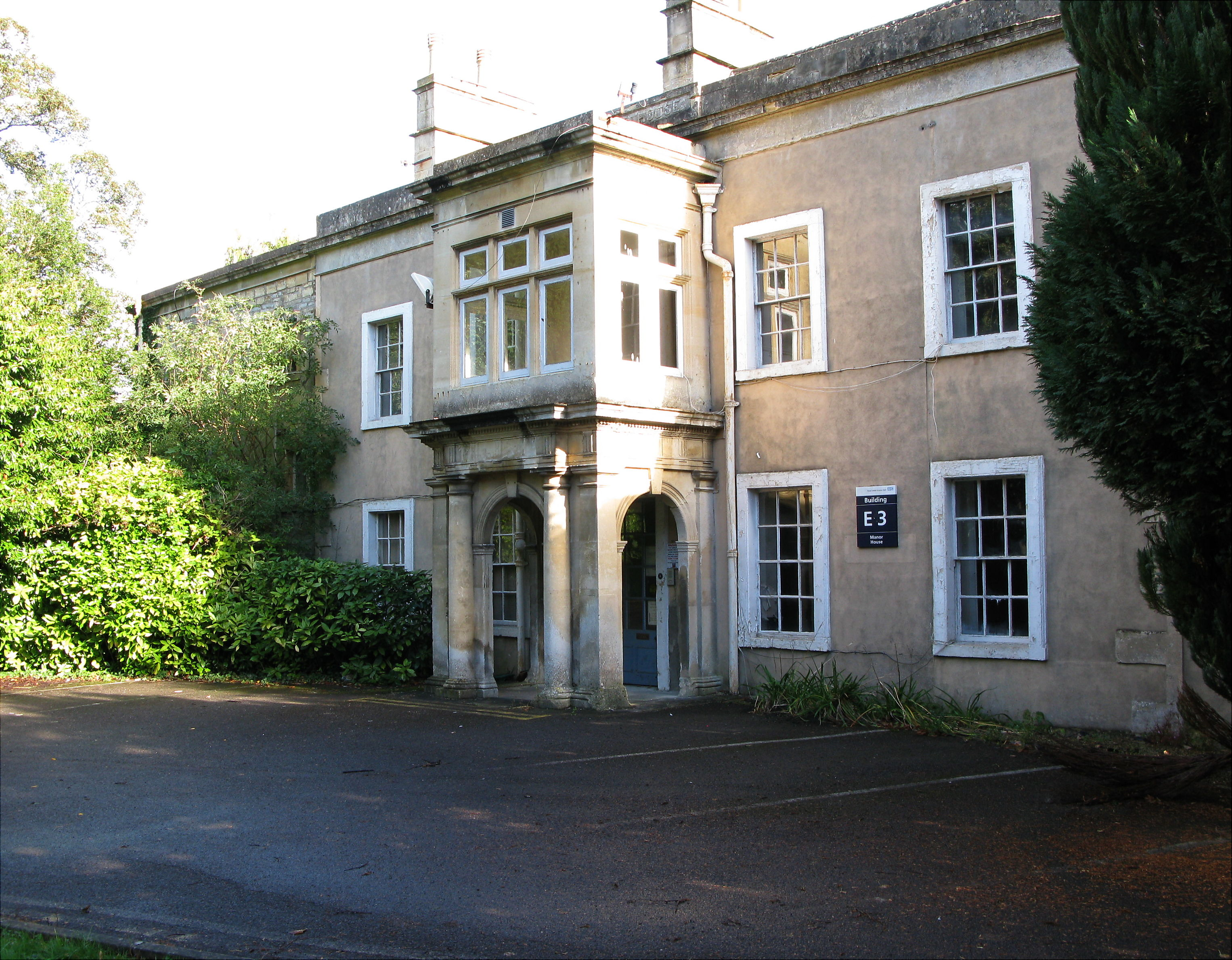 Manor House, Royal United Hospital, Bath